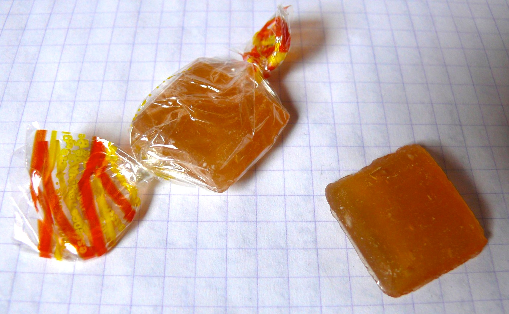 Bergamots of Nancy (Meurthe-et-Moselle, France)